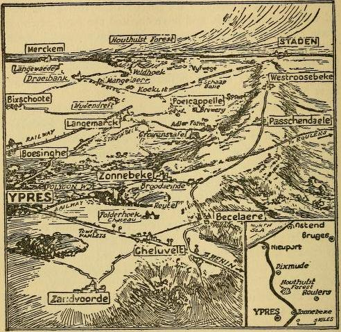 Sketch map of the Gheluvelt plateau during the Battles of Ypres 1917.